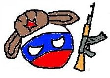 Russiaball with AK-47. Angry countryball.